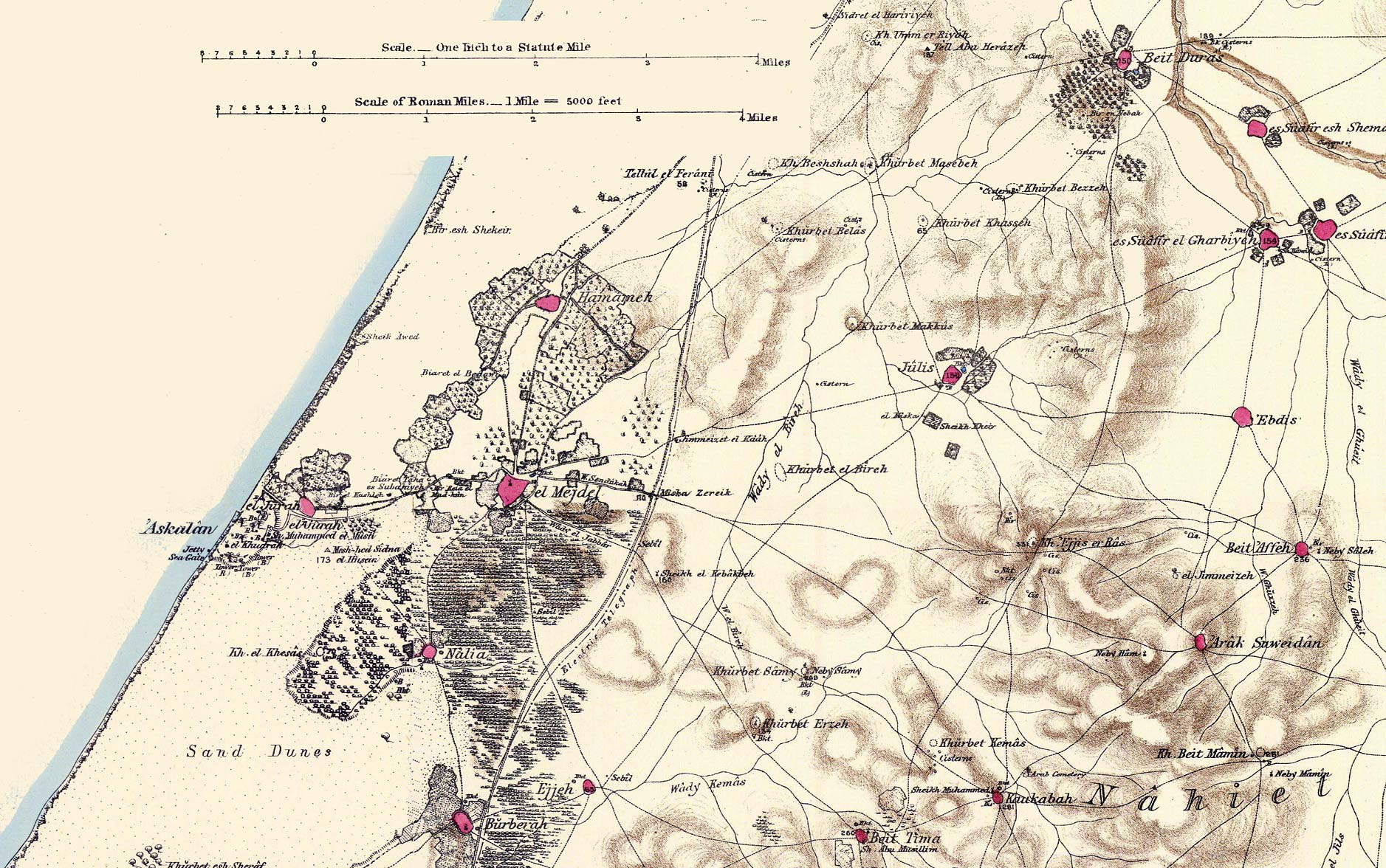 Portion of map produced by the Survey of Western Palestine, first published in 1880 by the Committee of the Palestine Exploration Fund. The editor, Walter Besant, died in 1901. This portion was made by the uploader out of portions of three sheets of the original map.